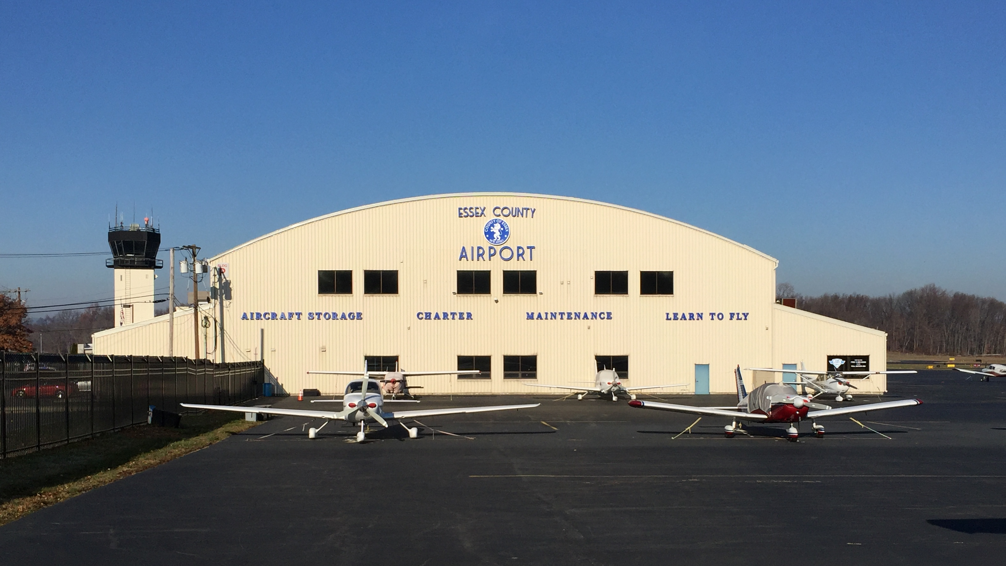 Essex County Airport main building and tower